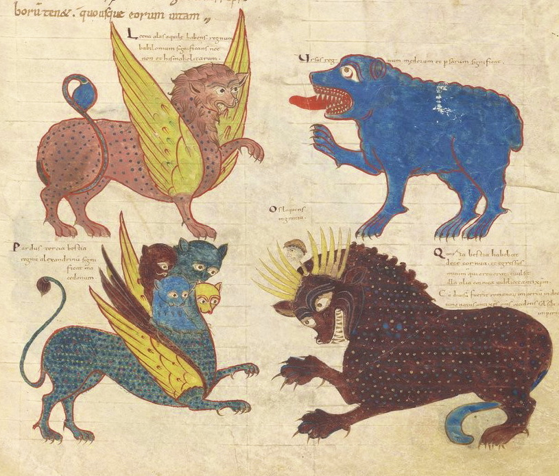 The Saint-Sever Beatus, also known as the Apocalypse of Saint-Sever, (Paris, Bibliothèque Nationale, MS lat. 8878) is a French Romanesque illuminated Apocalypse manuscript from the 11th Century.